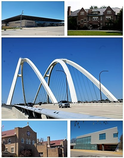 A montage of pictures Bettendorf, Iowa, USA. It includes the Quad Cities Waterfront Convention Center, the Joseph Bettendorf Mansion, Interstate 74 bridge, The Abbey and the Family Museum.